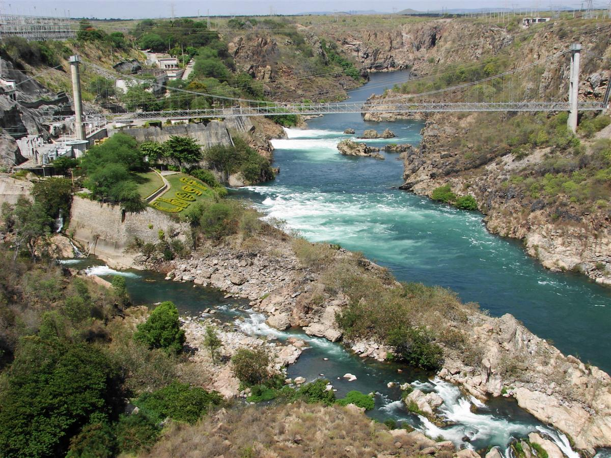 Paulo Afonso I, II and III on the Rio San Francisco